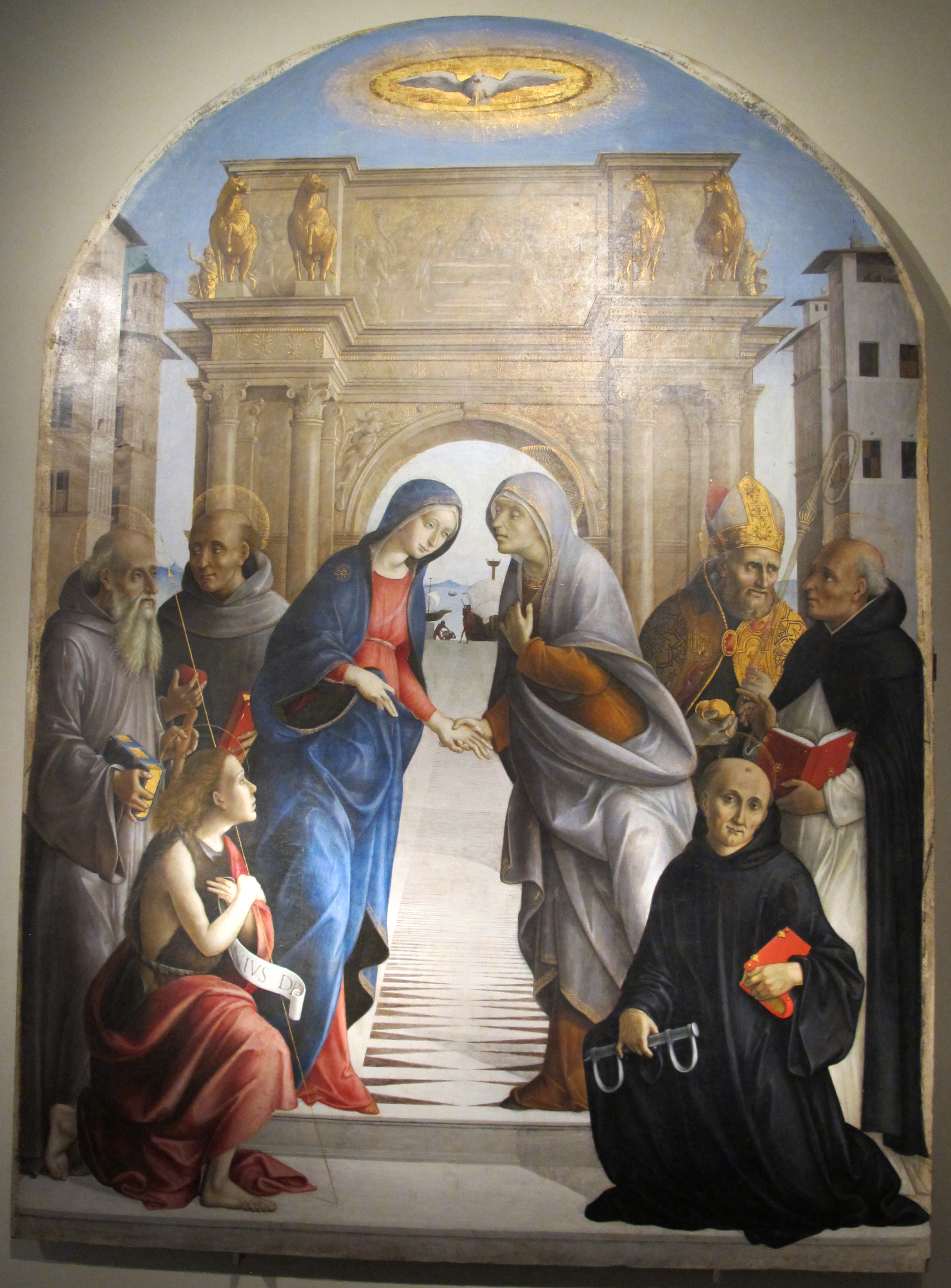 Painting in the National Pinacotheque, Siena